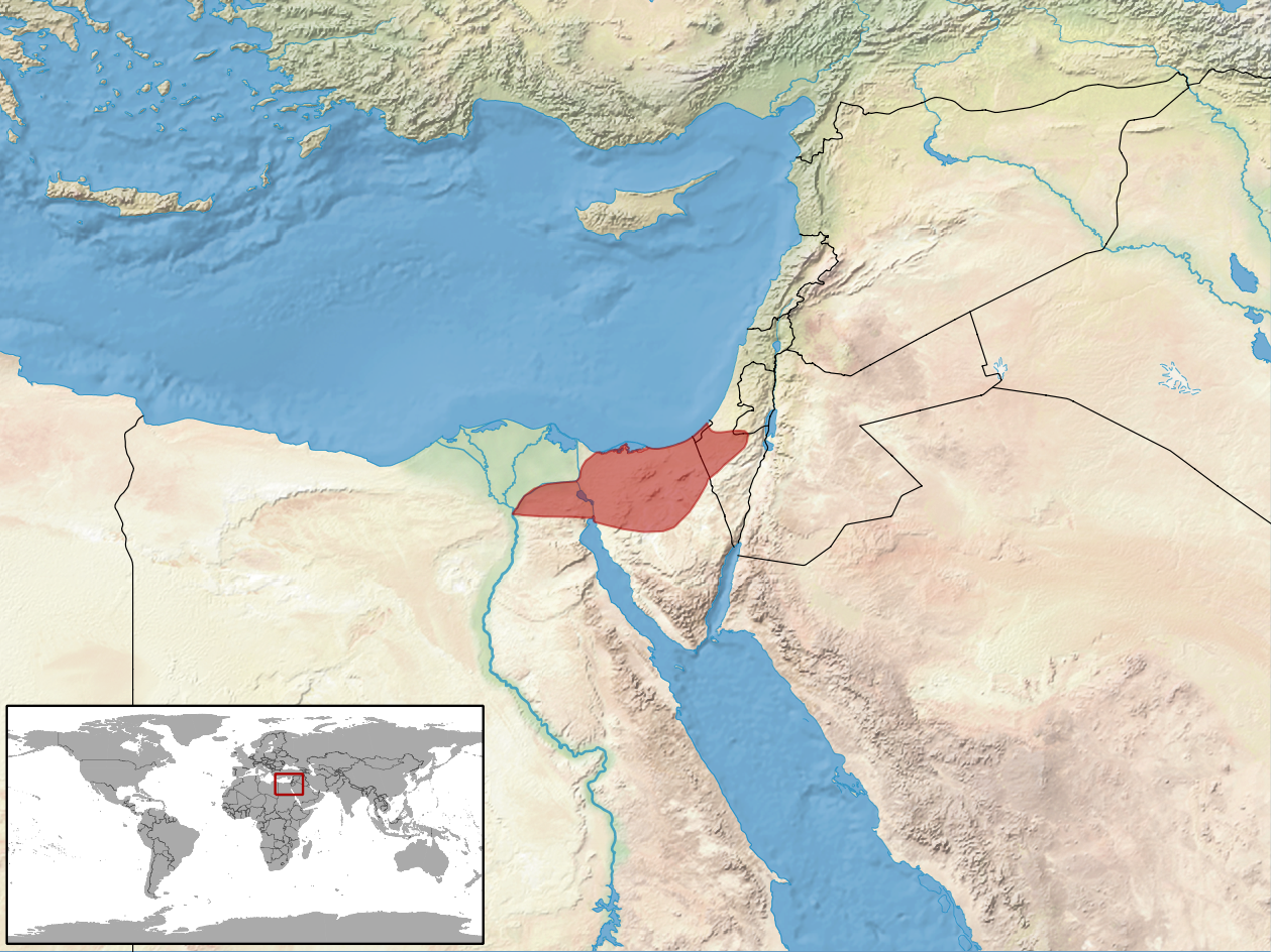 geographic distribution of Trapelus savignii (Native: Egypt; Israel; Palestinian Territory, Occupied)